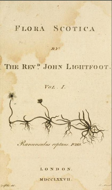 Title page of Flora Scotica, 1777, by the Reverend John Lightfoot. Illustration of Ranunculus reptans drawn by Moses Griffiths, engraved by Peter Mazell.